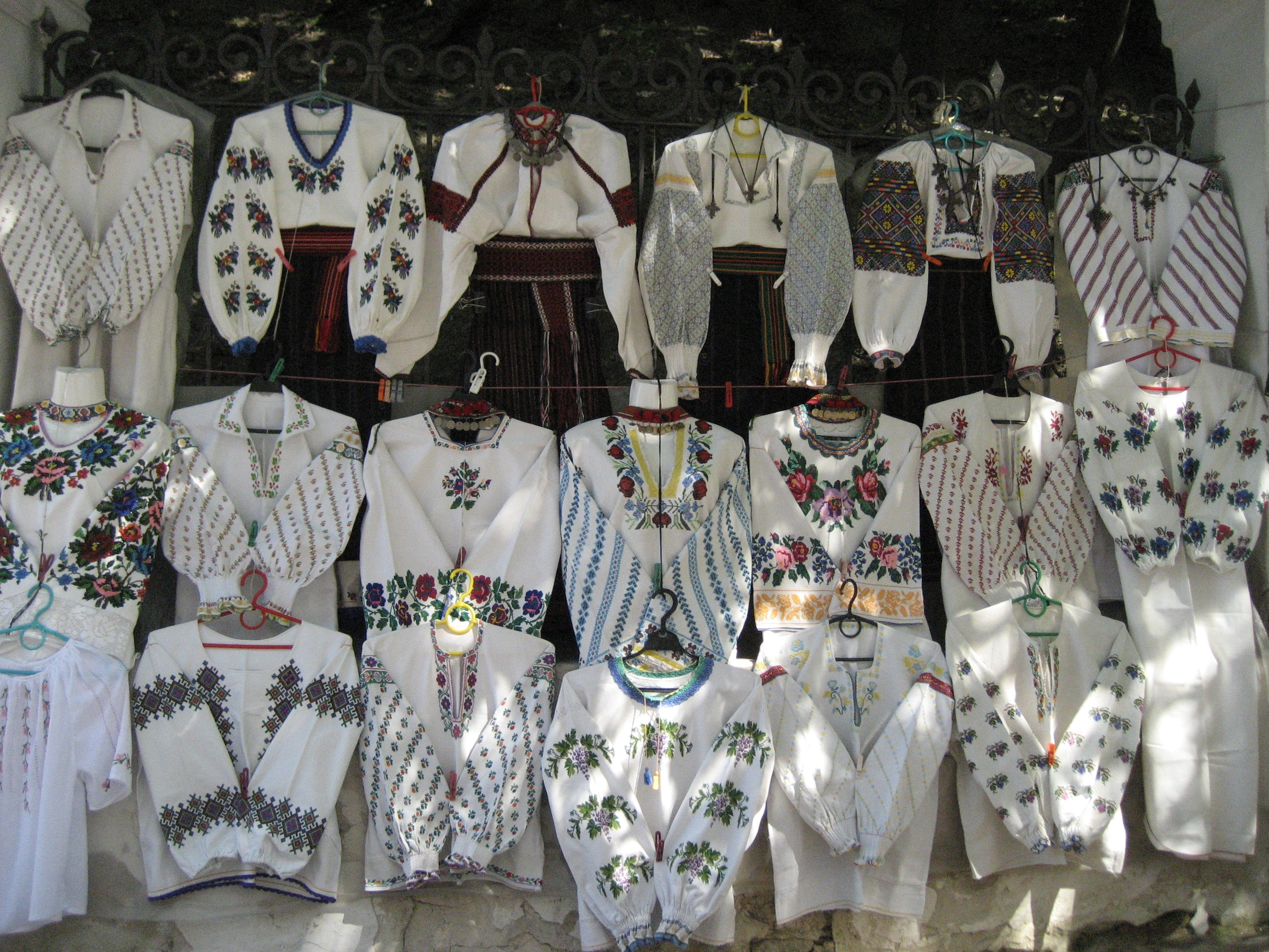 Vyshyvanka (Ukraine)